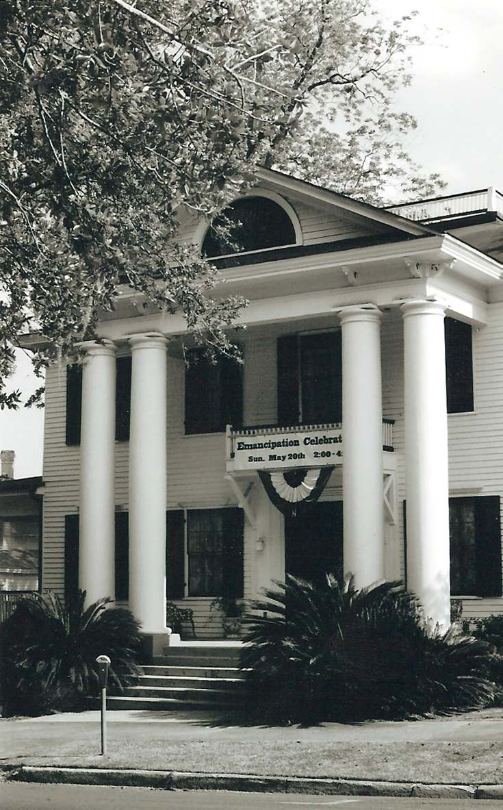 The Knott House in Tallahassee, FL. A key building in the Park Avenue Historic District. Former Headquarters of the Union Army. The Emancipation Proclamation was read from the steps of the building on May 20, 1865 declaring freedom for all slaves in the Florida panhandle.